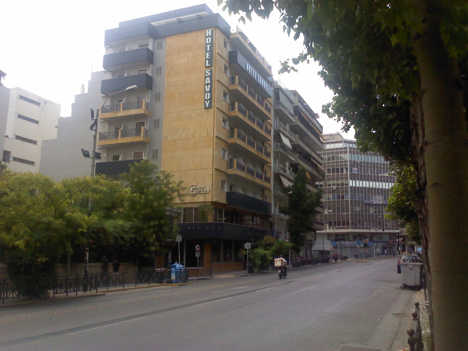 Hotel Savoy